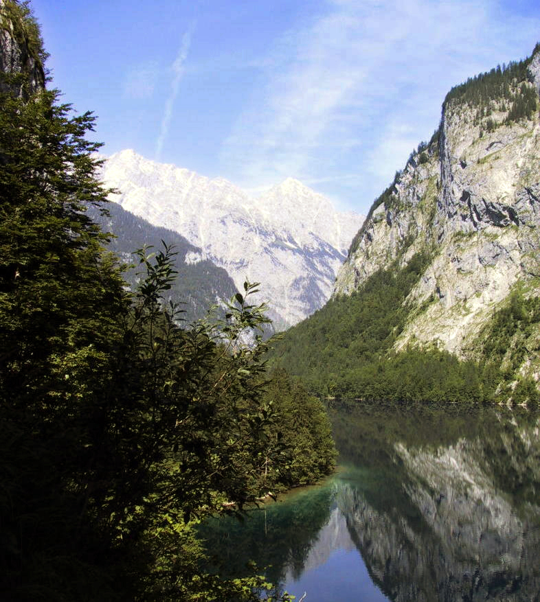 Watzmann, view from Obersee